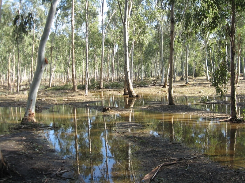 Hadera forest, Geography of Israel